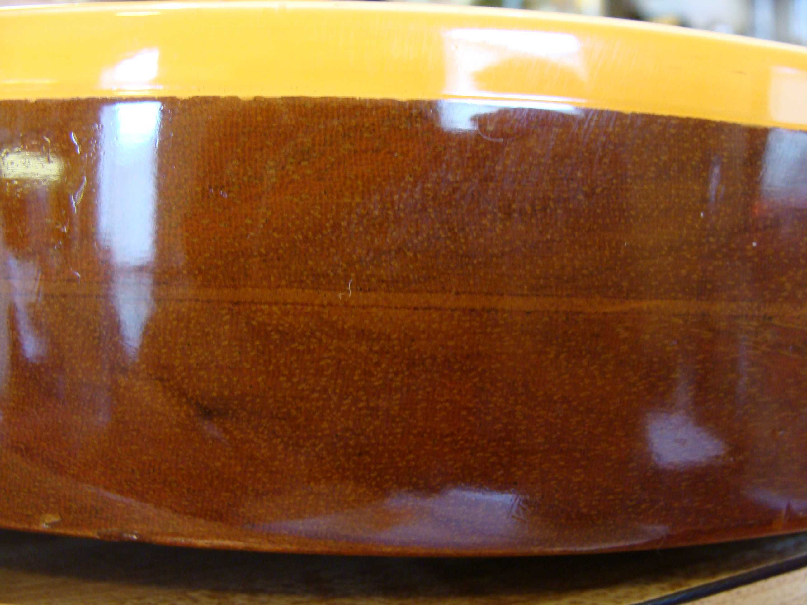 A sideways look at the four-piece-stacked body. From the top down: Top cap (maple) behind the binding, mahogany, thin maple veneer, mahogany back.